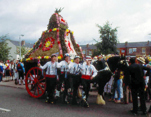 Gorton Rushcart Gorton Morris with their rushcart in Gorton, Manchester, Great Britain. The rushes were cut the previous weekend in the hills and were bundled, trimmed, assembled onto the cart behind the pub during the week. On the Saturday the decoration was added and the rushcart was paraded around the streets of Gorton by Gorton Morris in their clogs joined by invited teams from all over the country.